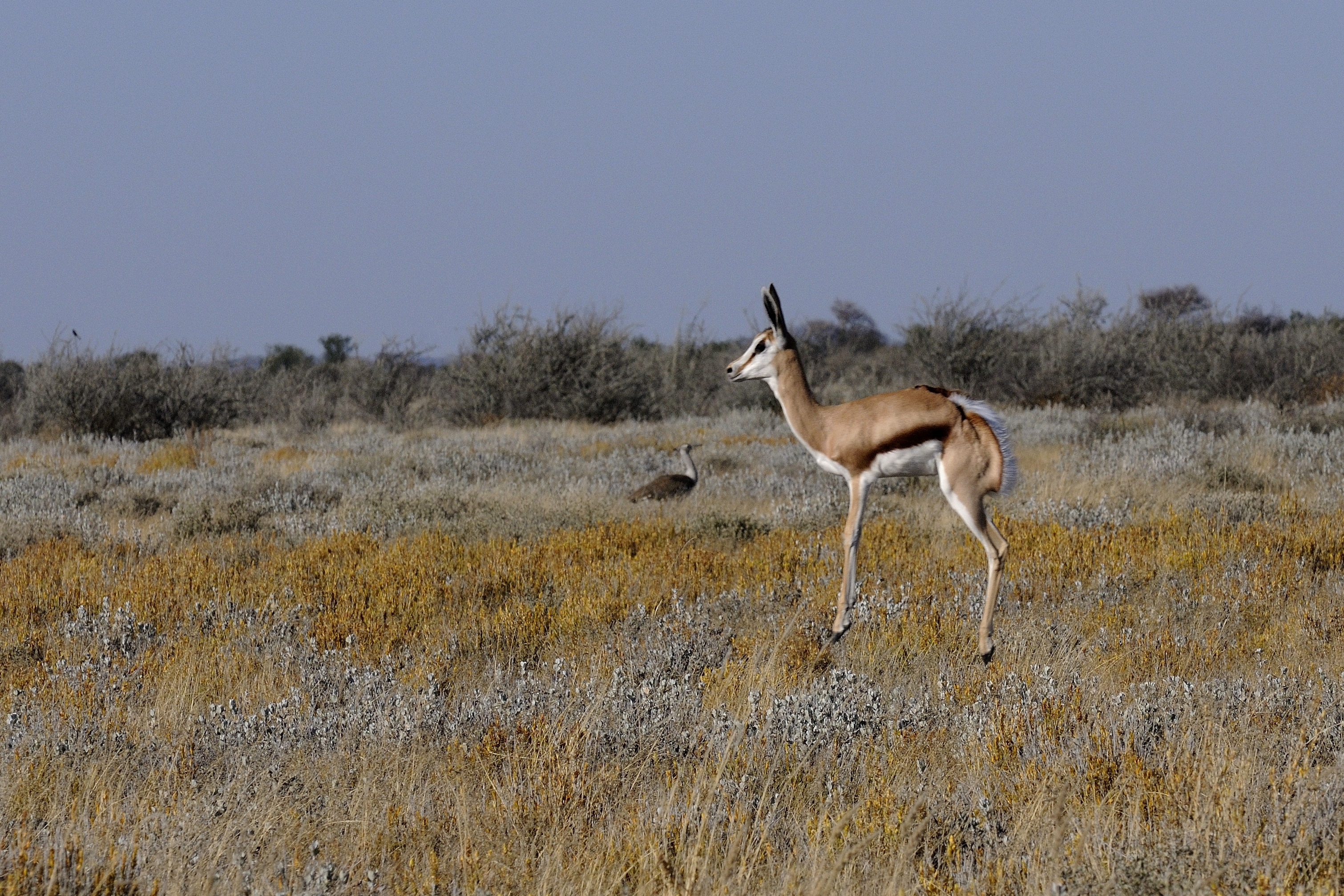 Pronking springbok (Antidorcas marsupialis), Etosha/Namibia